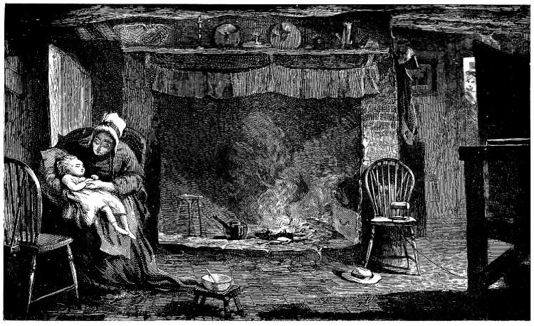 Stone's illustration for Book 2, Chapter 9, "In which The Orphan Makes His Will"